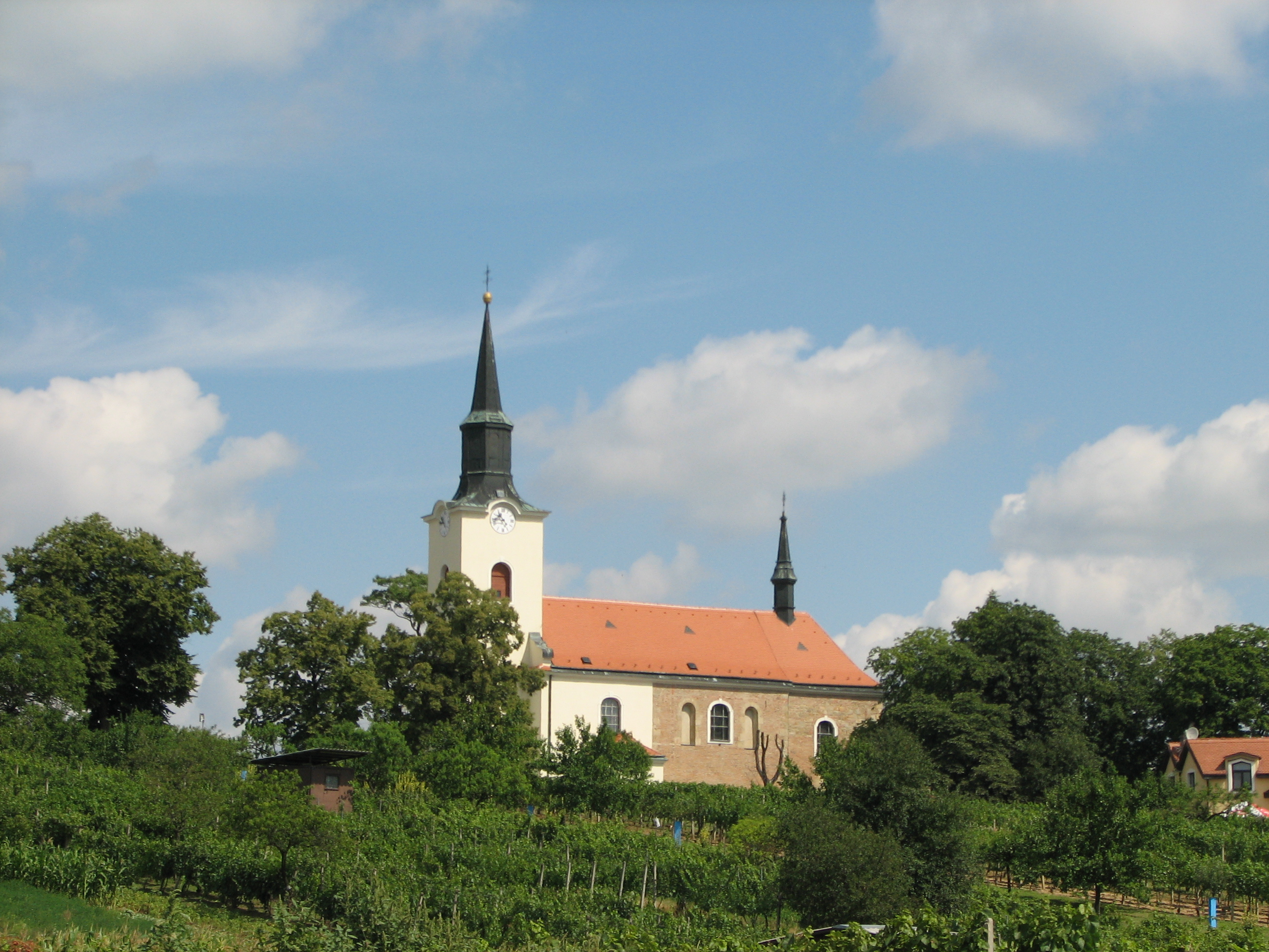 St. Wenceslas church in Kostelec u Kyjova